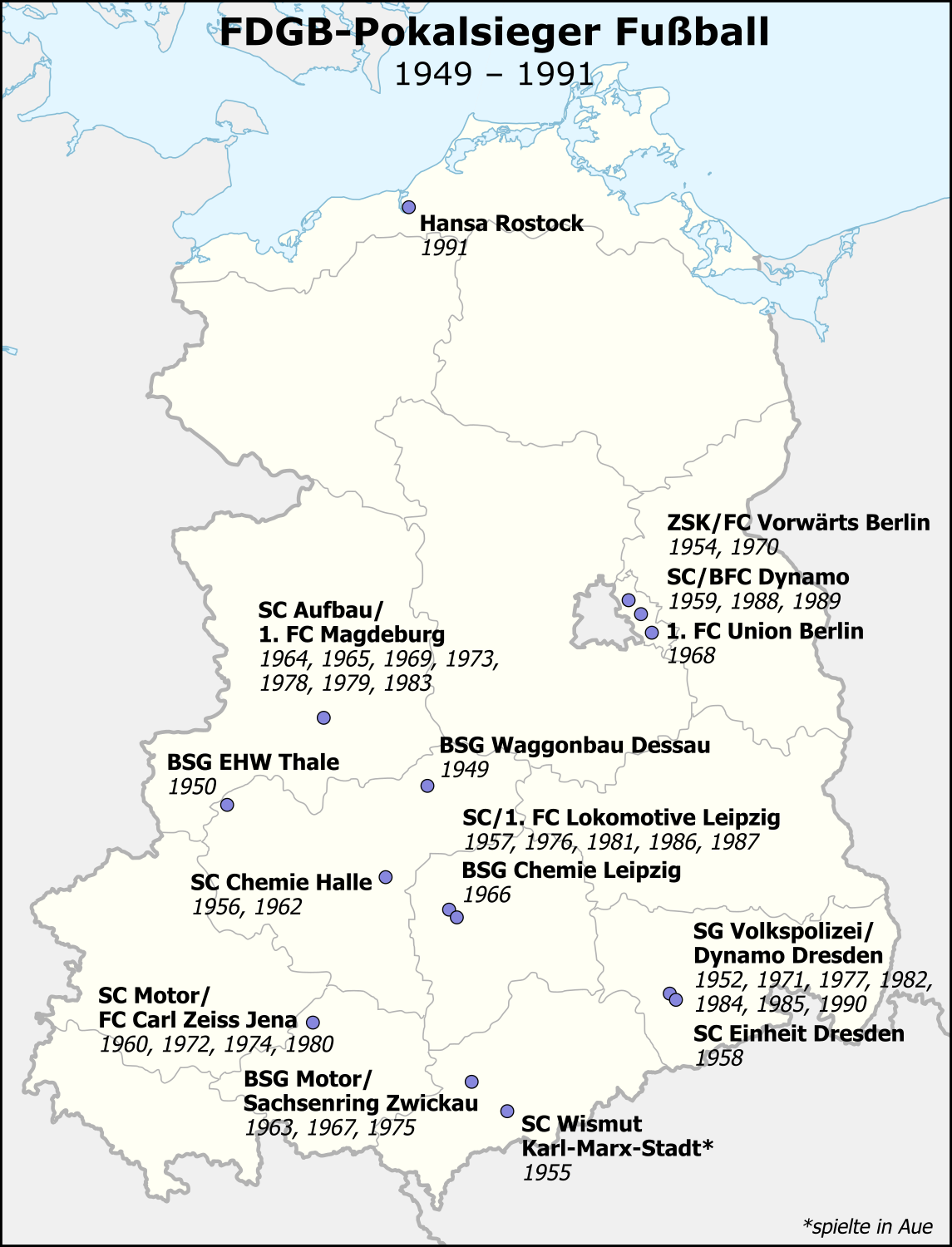 Map of East German Soccer Cup Champions, 1949-91